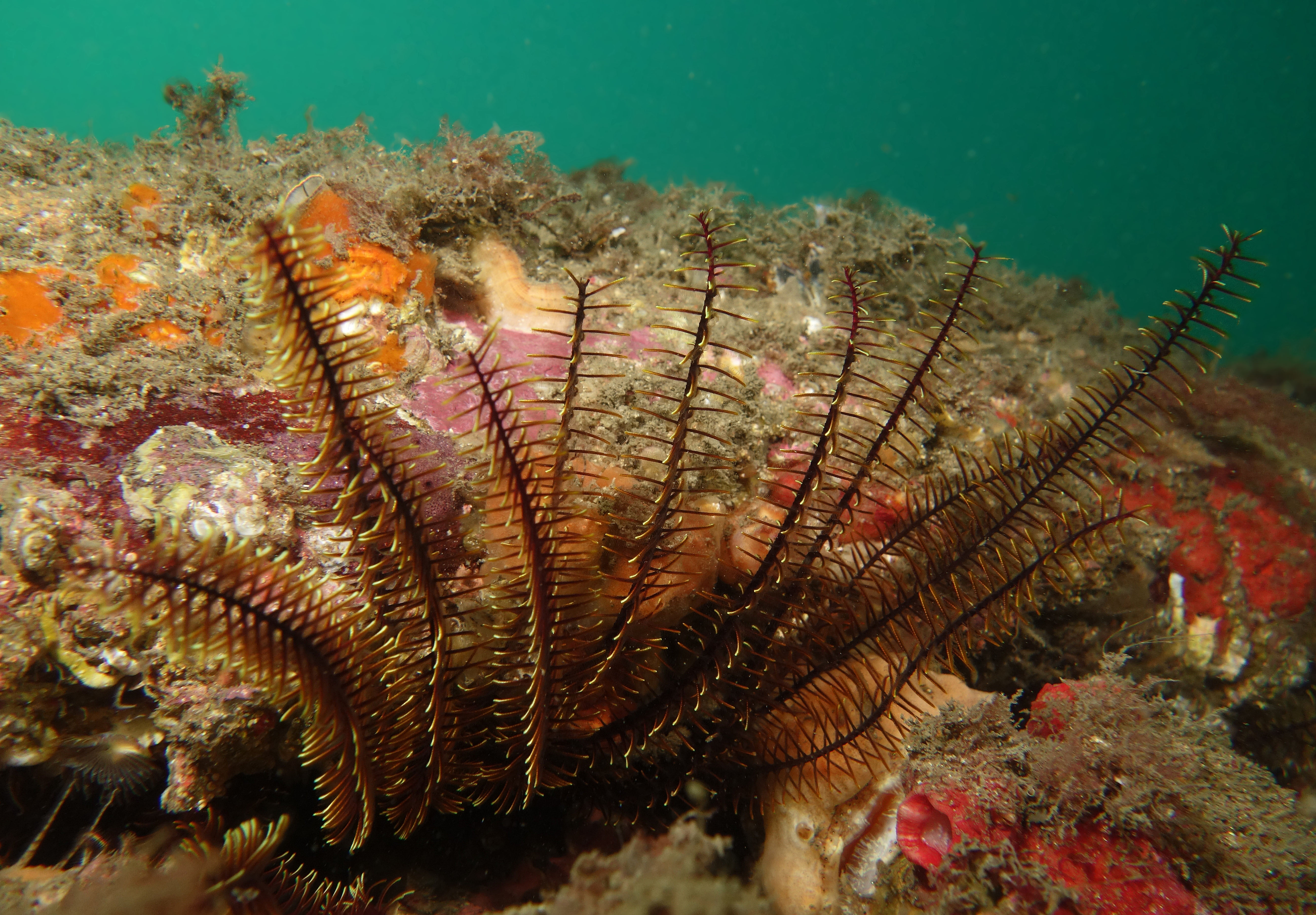 Comanthus trichoptera (Feather star) Bare Island